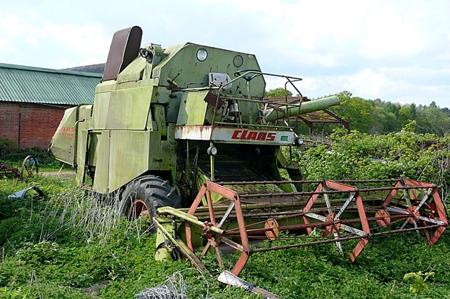 A recently de-commissioned Claas Senator 70 combined harvester, built around the mid 1970s, on a yard at Turmer, near to Harbridge, Hampshire, Great Britain.